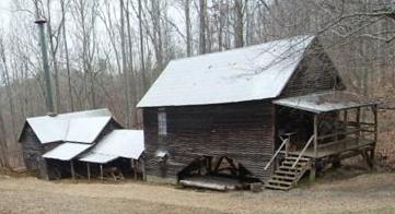 The Mill Complex at the Jarrell Plantation